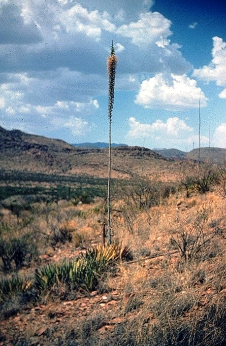 Lechuguilla. Plant and habitus. Location: West of Van Horn, TX, USA.